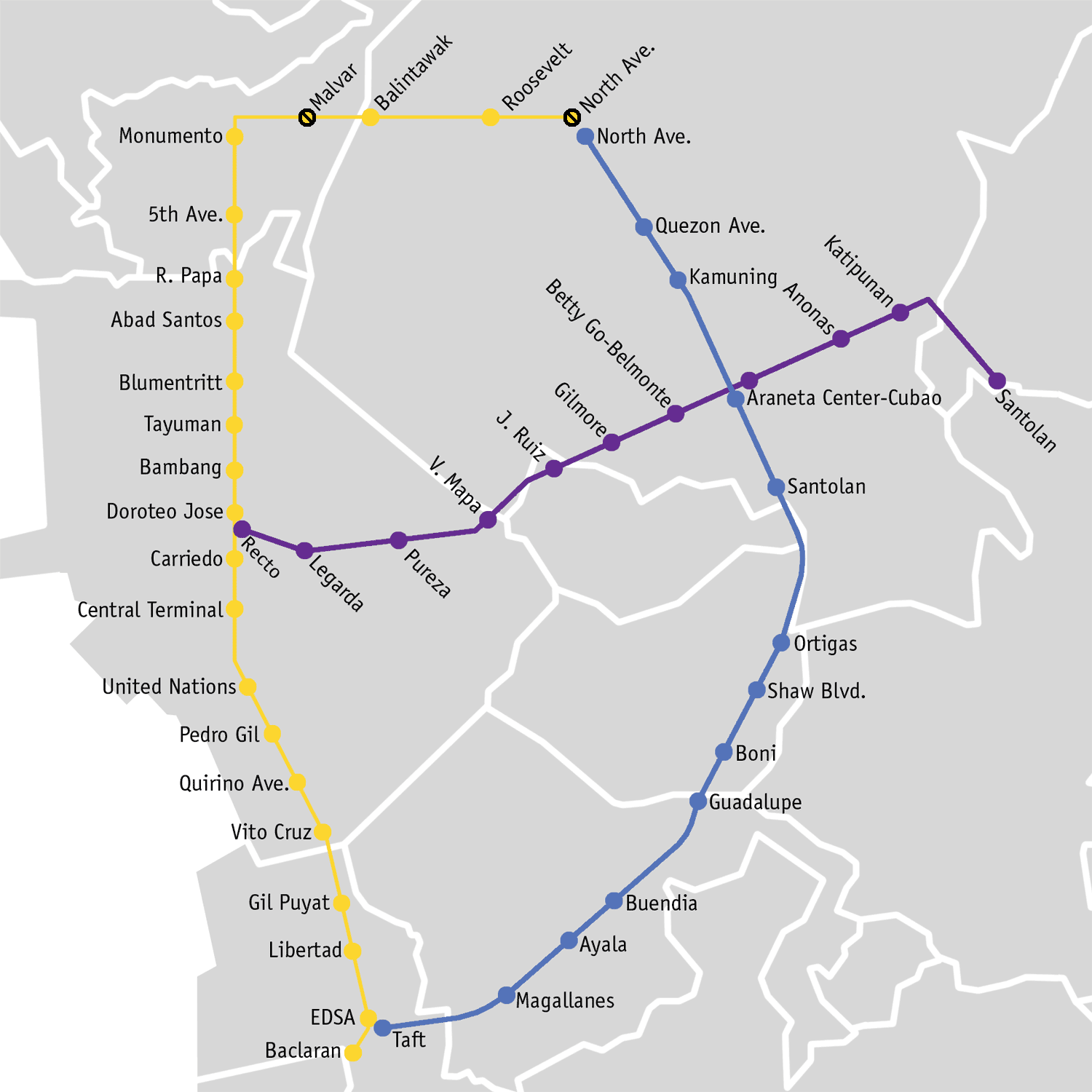 Map of the Manila LRT and MRT systems